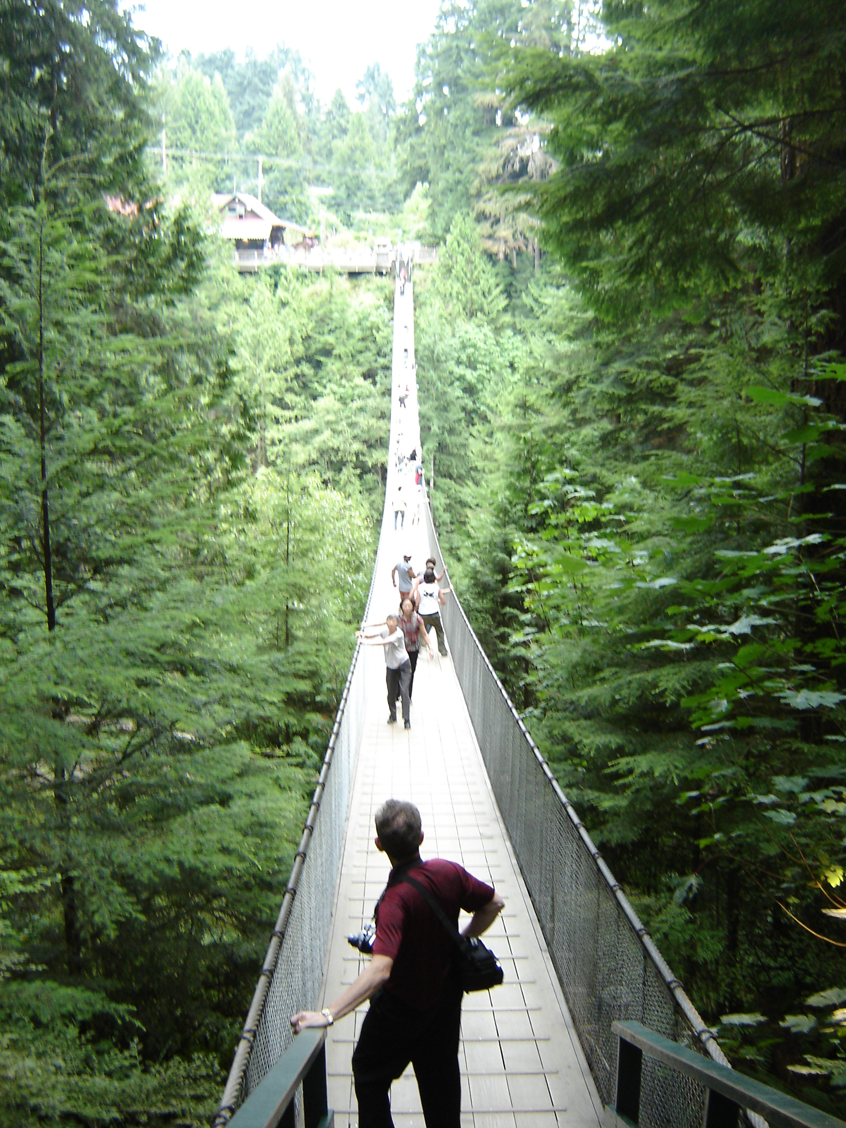 A direct view standing at one end of the Capilano suspension bridge to the other side. Vancouver British Columbia Canada